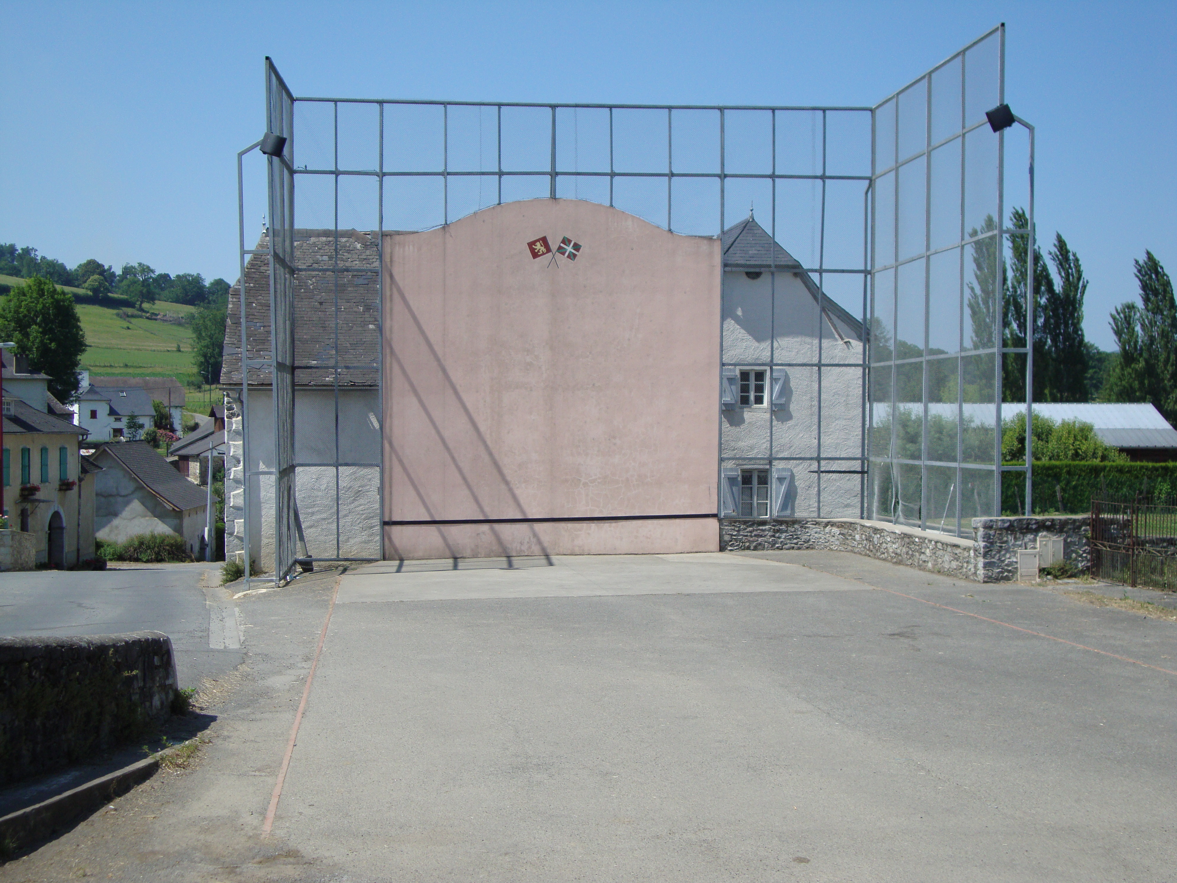 Lichans (Lichans-Sunhar, Pyr-Atl, Fr) pelota court